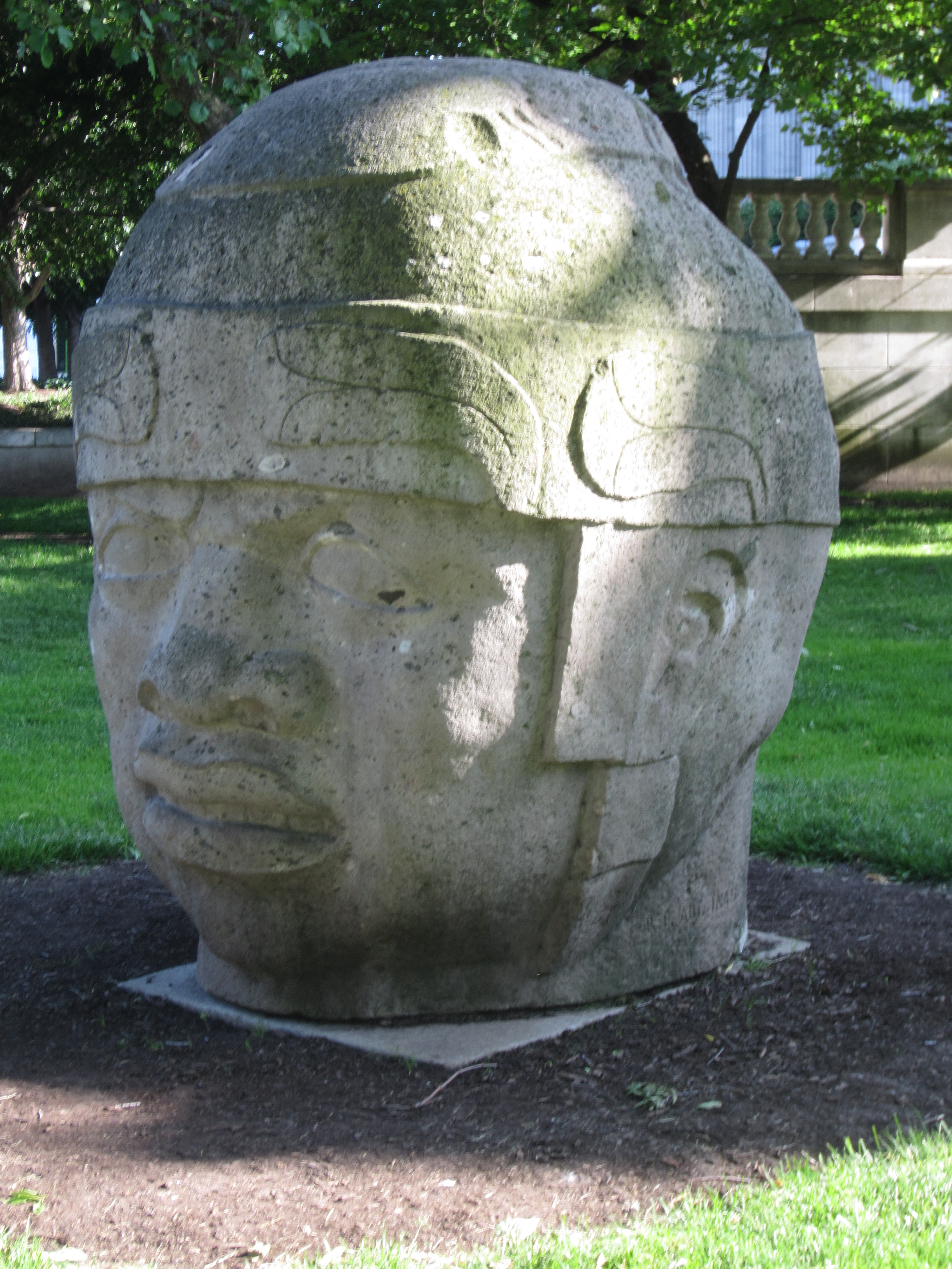 Chicago, Illinois, June 2015